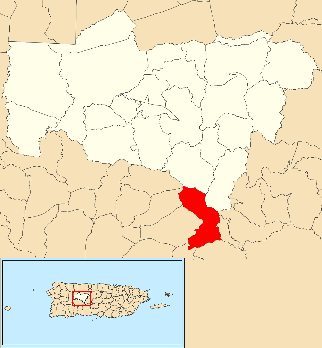 Consejo, Utuado, Puerto Rico locator map scale is 102,000